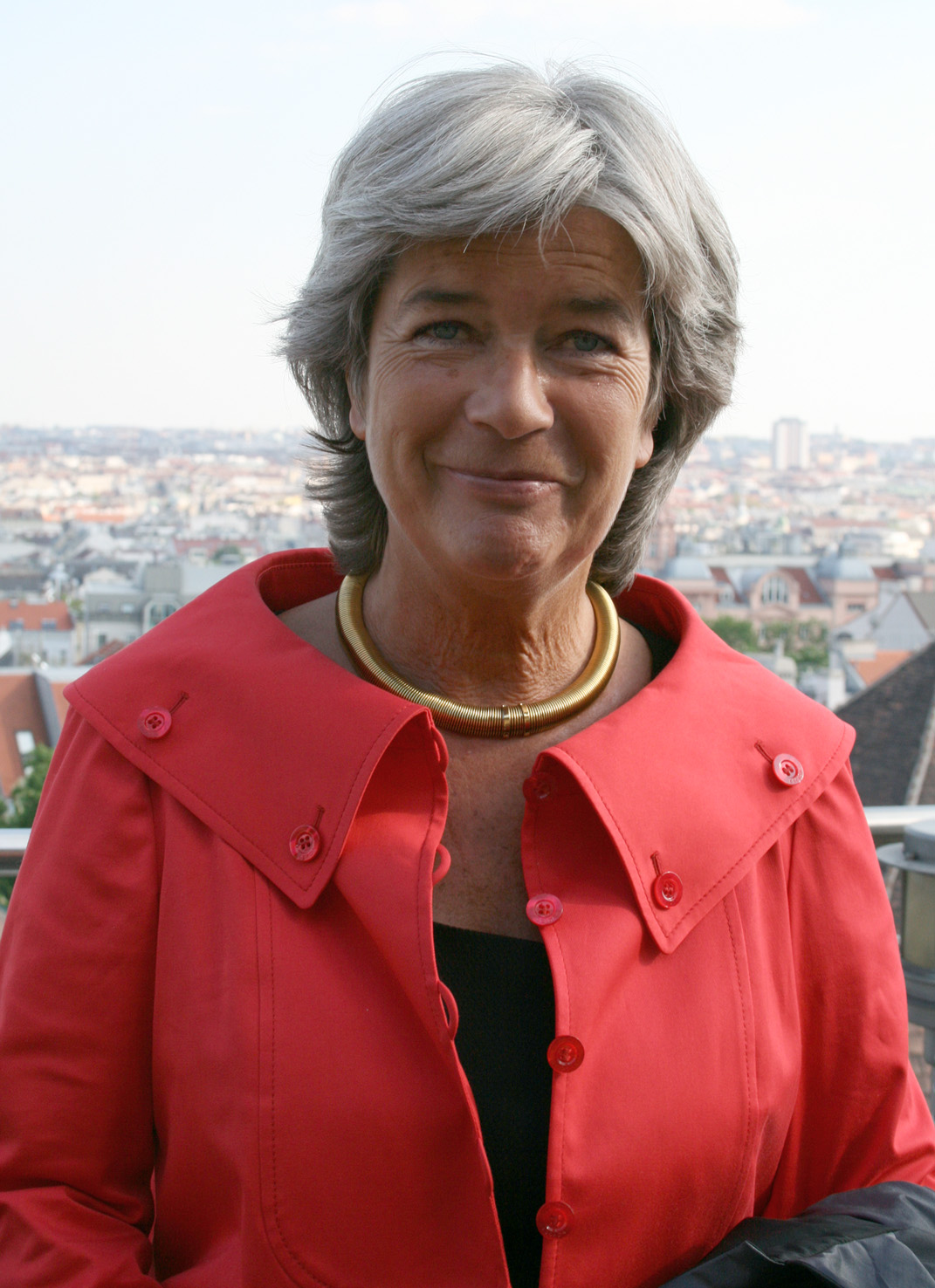 Austrian politician Heide Schmidt (Vienna)